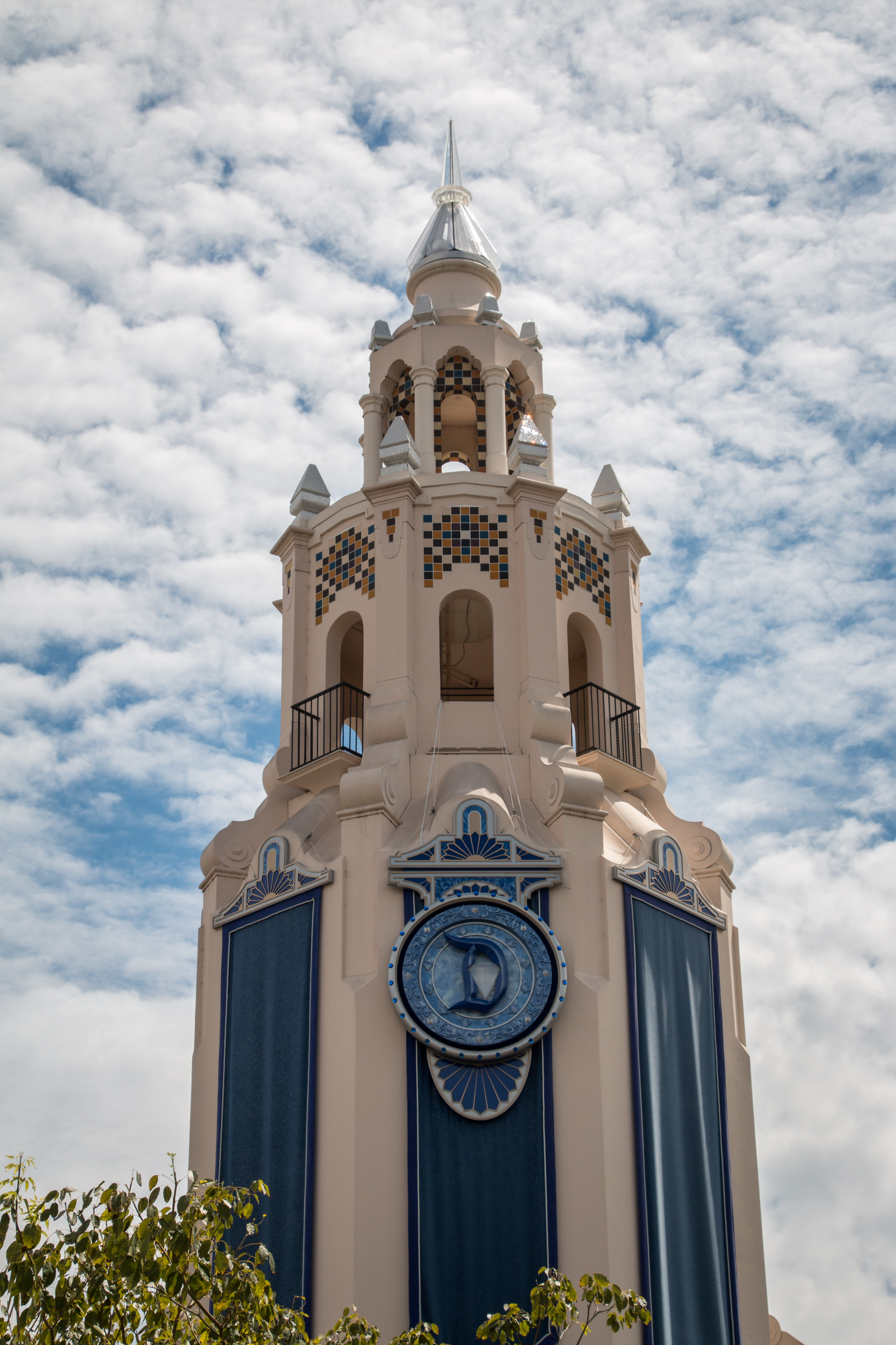 Carthay Circle Theatre all decked out for the Disneyland Resort Diamond Celebration.